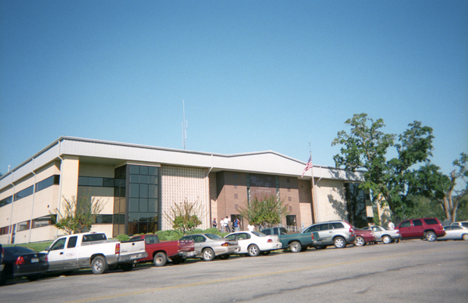 Washington County Courthouse (Built 1964), Chatom, Alabama.